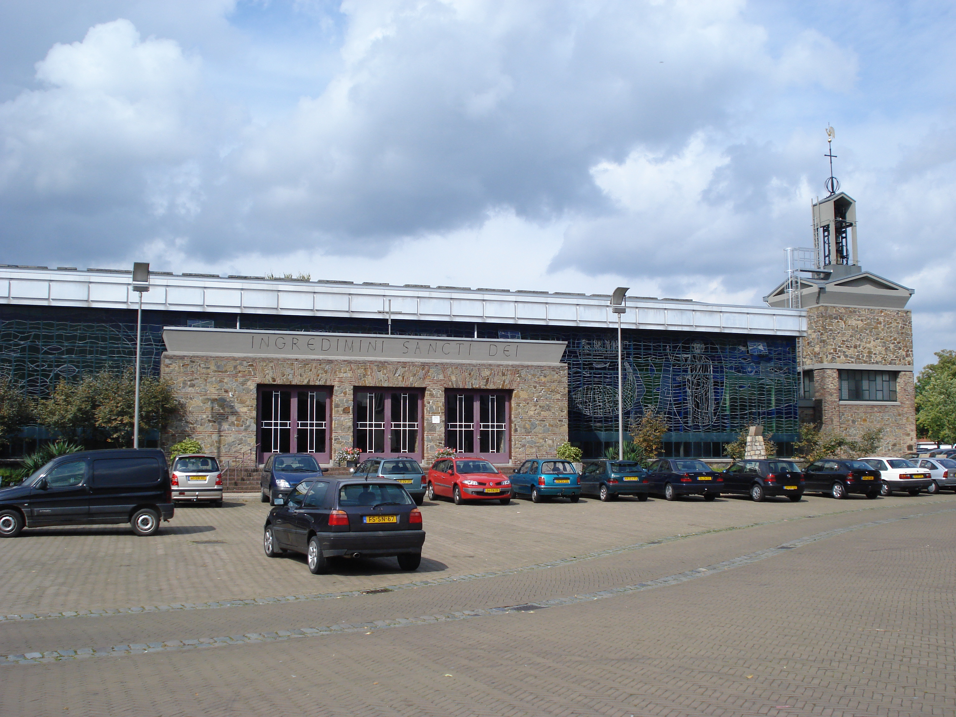 Malden(Gld, NL) church front view